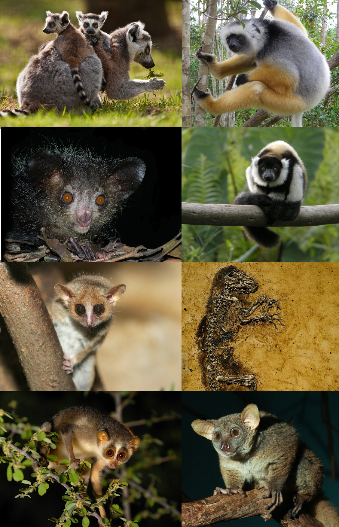 Variety of strepsirrhine primates, from top, left to right: Ring-tailed lemur (Lemur catta) Diademed Sifaka (Propithecus diadema) Aye-aye (Daubentonia madagascariensis) Black-and-white ruffed lemur (Varecia variegata) Gray mouse lemur (Microcebus murinus) Darwinius masillae Gray slender loris (Loris lydekkerianus) Northern greater galago (Otolemur garnettii)